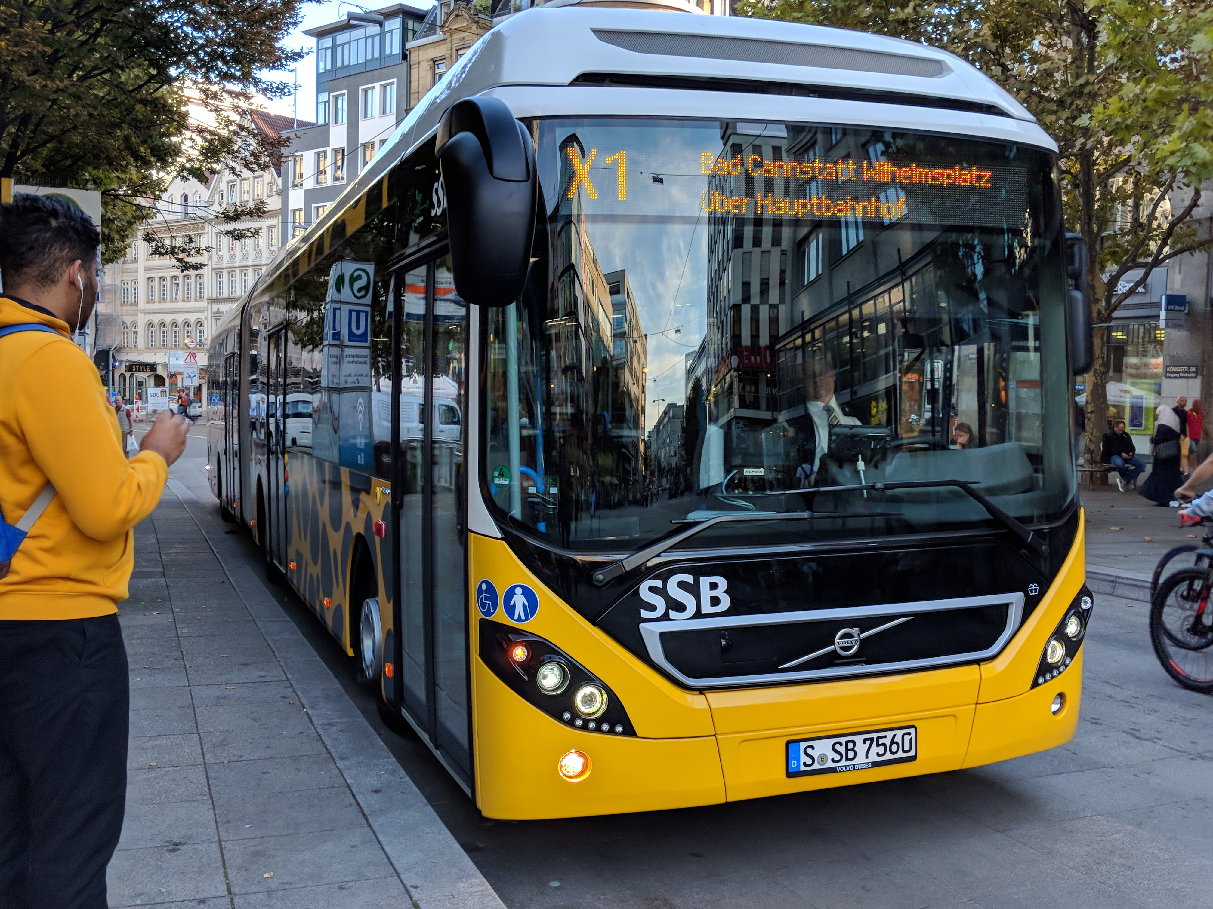 A Volvo-Bus of the Express Bus Line X1 at the bus stop Wilhemsbau in Stuttgart